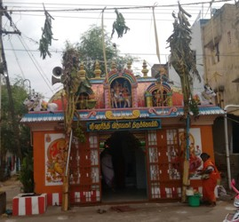 Varasitthi vinayakar temple kumbabishegam banadurai, kumbakonam கும்பகோணம் பாணாதுறை வரசித்திவிநாயகர் கோயில் கும்பாபிஷேகம்